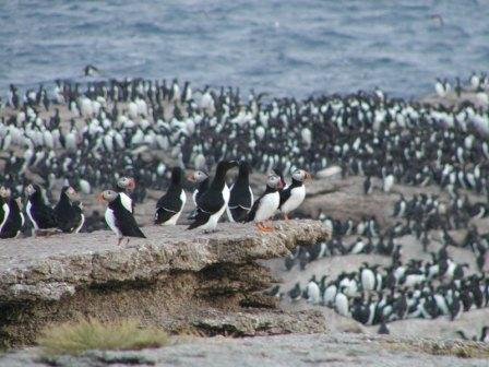 At Funk Island Newfoundland, Canada